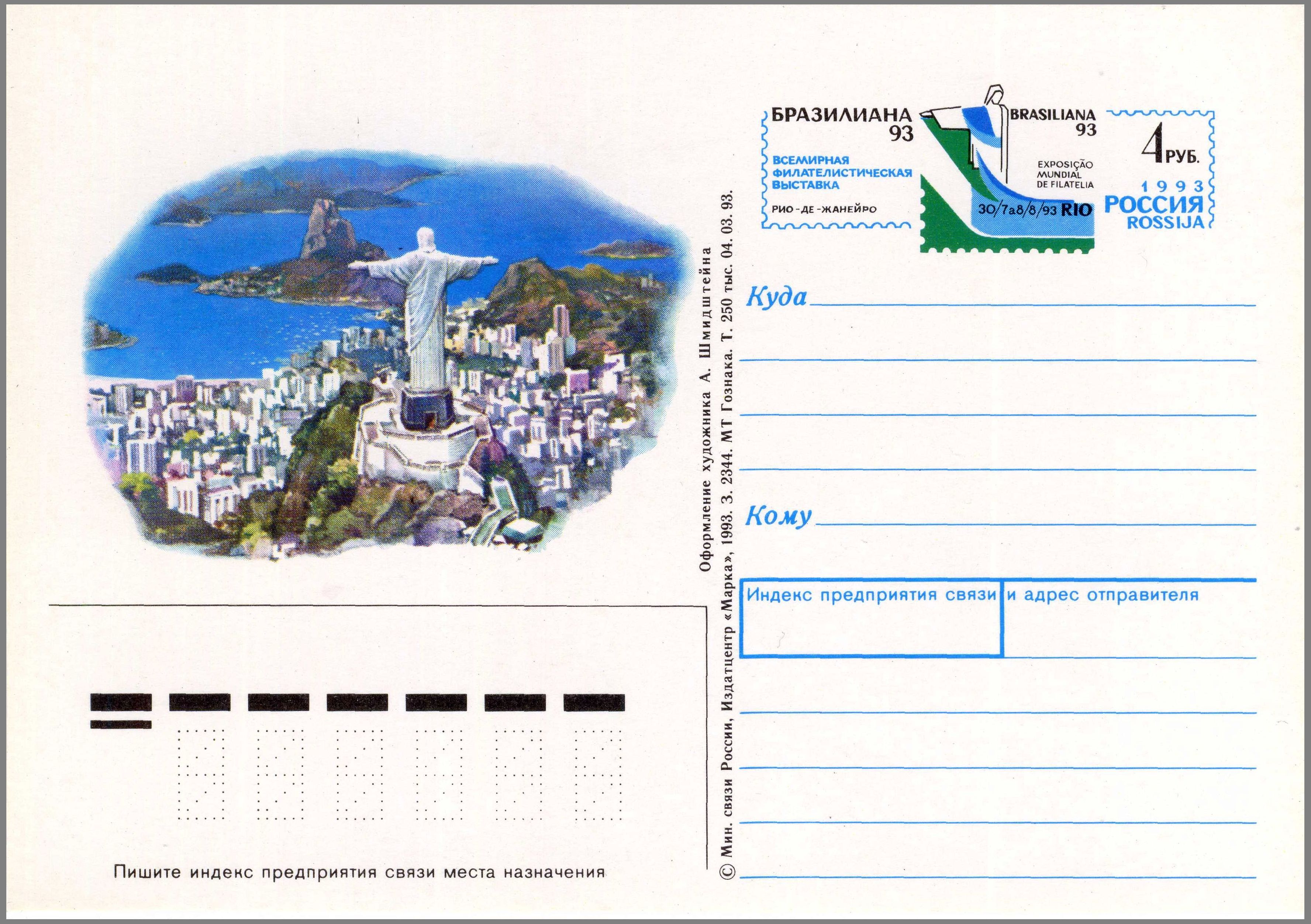 Universal stamp exhibition Brasiliana'93. The postal card with imprinted commemorative stamp, Russia, 1993. The commemorative stamp (4 rubles): the emblem of the exhibition which uses the silhouette of the statue of Christ the Redeemer (Cristo Redentor) as the main element. The illustration: the view of Rio de Janeiro, the statue of Christ the Redeemer.